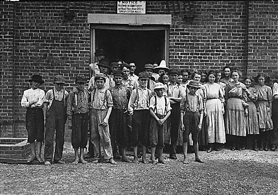 Original description: Part of the force at Tupelo Cotton Mills. All work. Smallest ones not in photo. Among youngest here are, Coleman Miller, been working one year, can not write his name, said 12 years old but doesn't appear to be. Zamie Scott, one year working. Tupelo, Miss., 05/16/1911. Photographed by Lewis Hine.